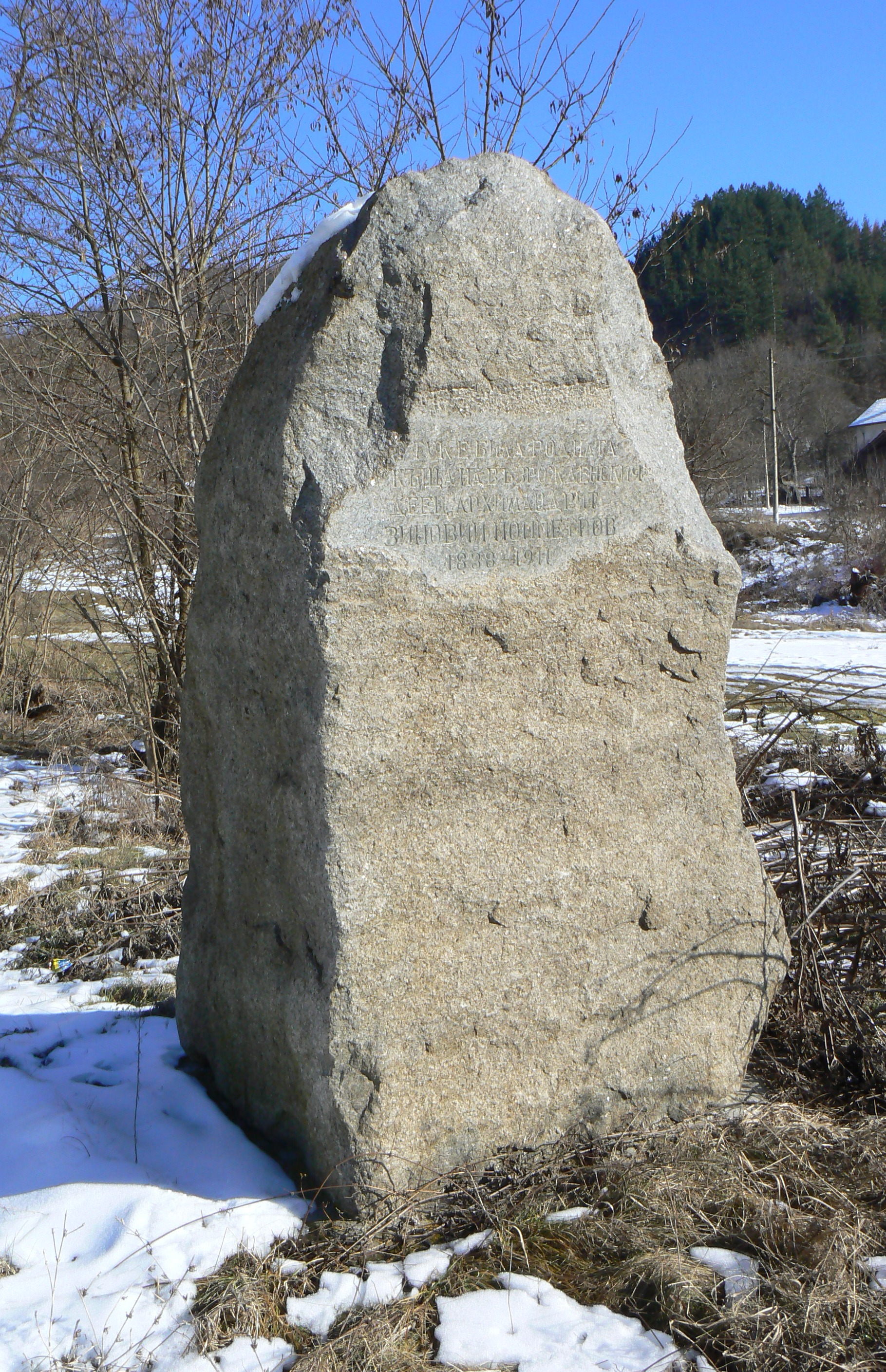 A memorial stone on the place of the home of Archimandrite Zinovii Poppetrov, in village Vranya Stena, Bulgaria